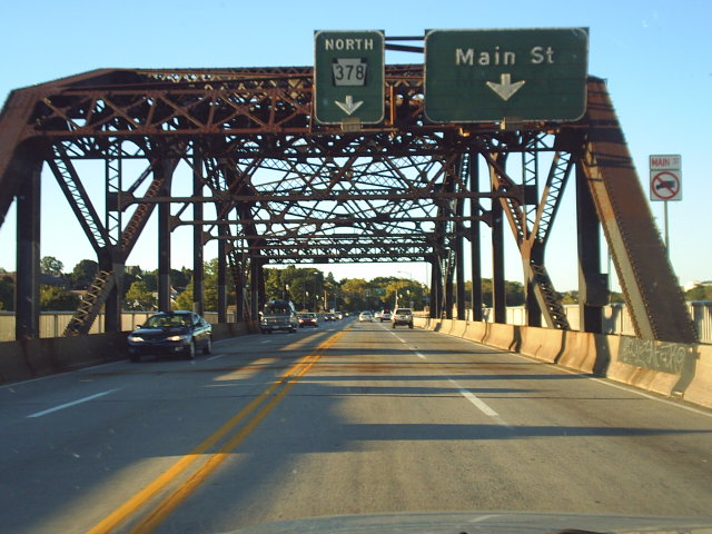 Pennsylvania State Route 378 heading along the Hill to Hill Bridge in Bethlehem, Pennsylvania.